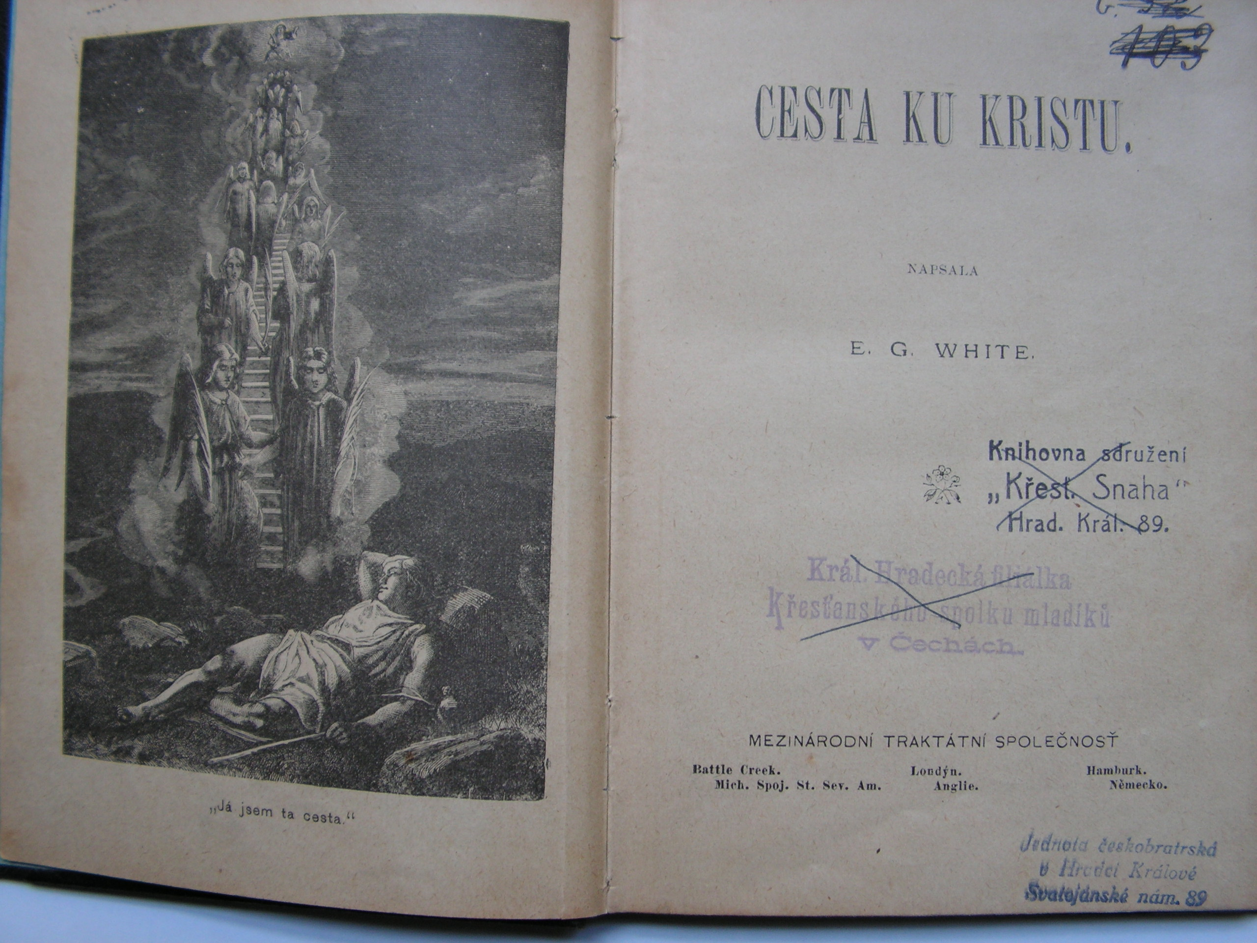 První české vydání knihy E.G. Whiteové z roku 1894